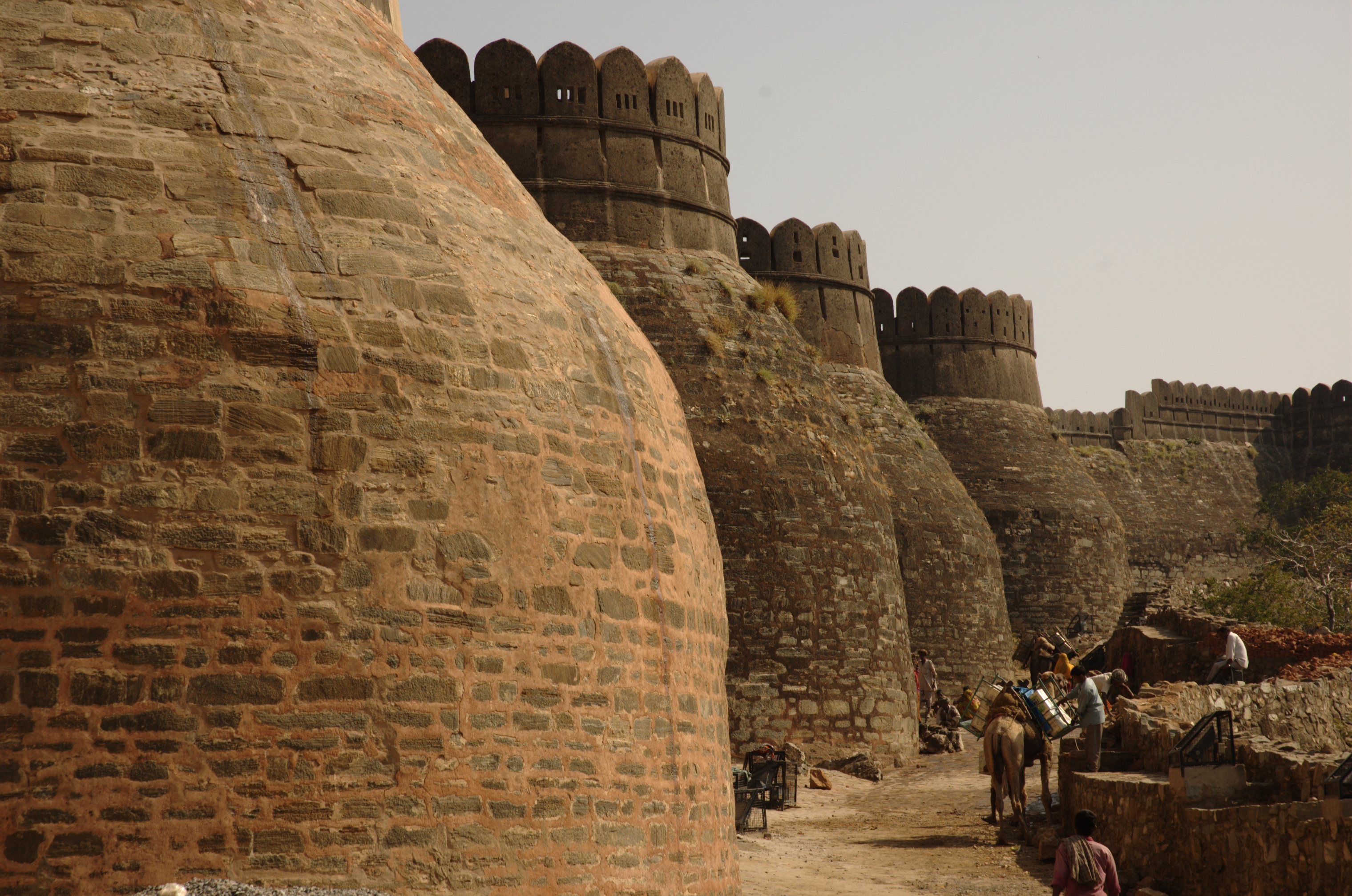 Walls of Kumbhalgarh fort.